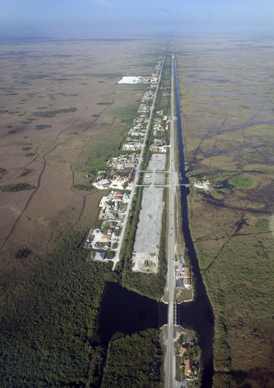 Everglades Restoration near Miccosukee Indian Village on US Route 41 (facing west)